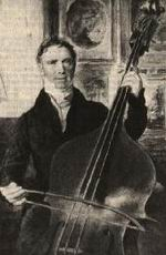 Domenico Dragonetti with his three-string double bass: watercolour portrait by (?) George Richmond (1809-1896) (collection of the late Rembert Wurlitzer)